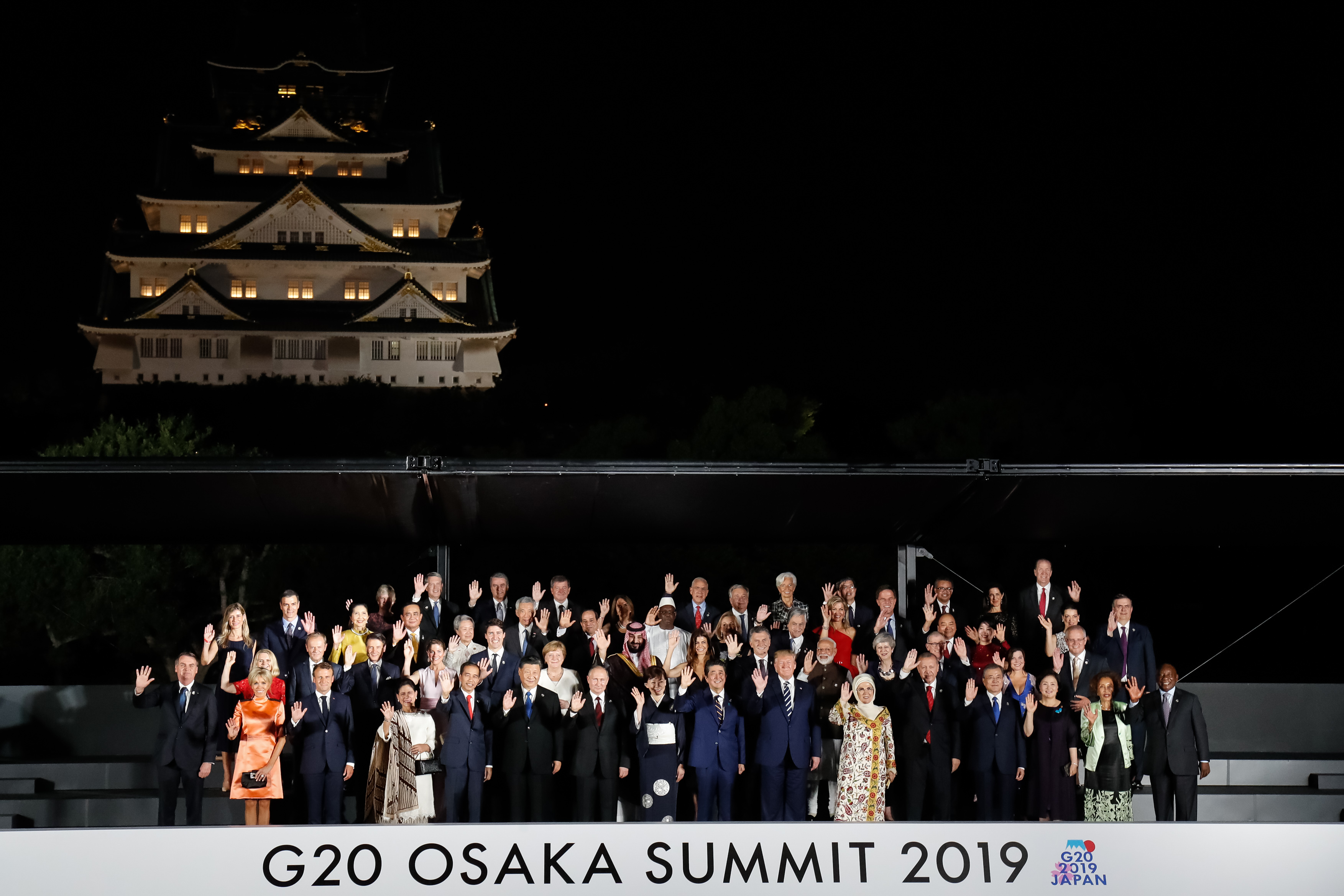 (Osaka - Japão, 28/06/2019) Presidente da República, Jair Bolsonaro, posa para foto de família durante jantar em homenagem aos Líderes do G20 oferecido pelo Primeiro Ministro Shinzo Abe. Foto: Alan Santos / PR